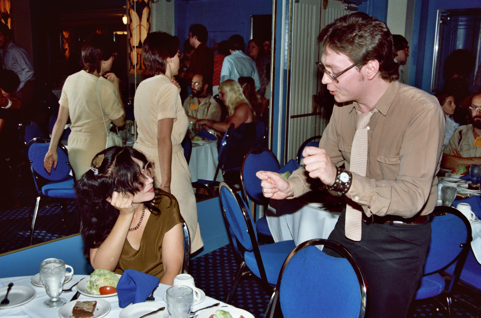 Terry Beatty (right) speaks enthusiastically to someone he now thinks may be Katy Keene fan Barb Rausch, at the 1982 San Diego Comic Con (today called Comic-Con International). NOTE: Permission granted to copy, publish, broadcast or post any of my photos, but please credit "photo by Alan Light" if you can. Thanks